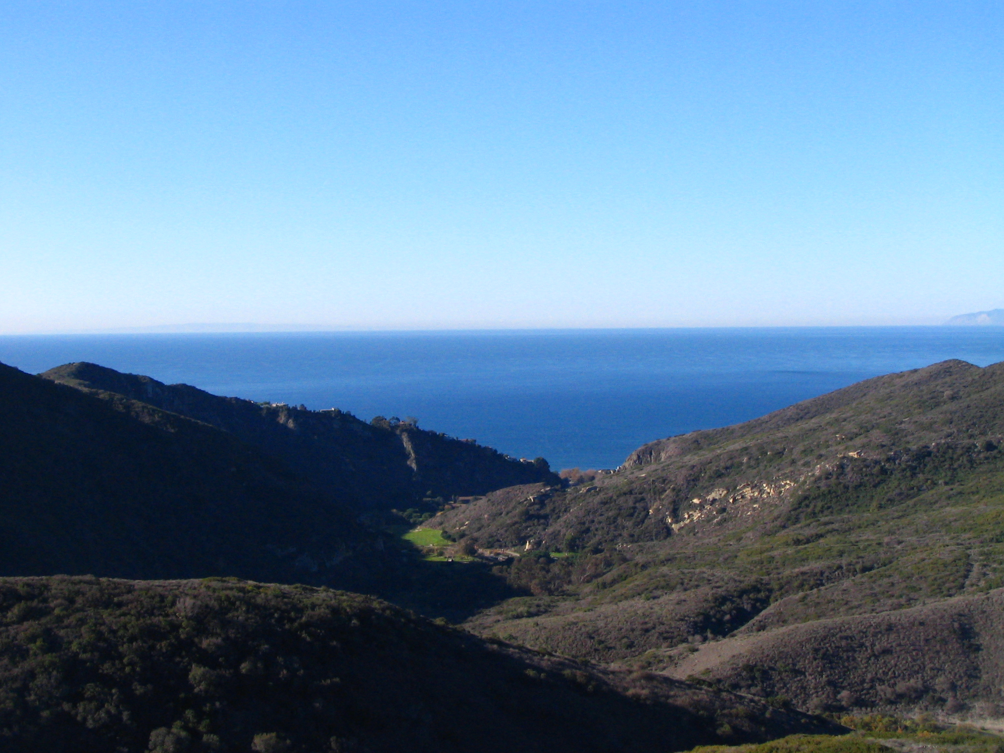 The mouth of the Aliso/Wood Canyons Regional Park with the Pacific Ocean beyond.